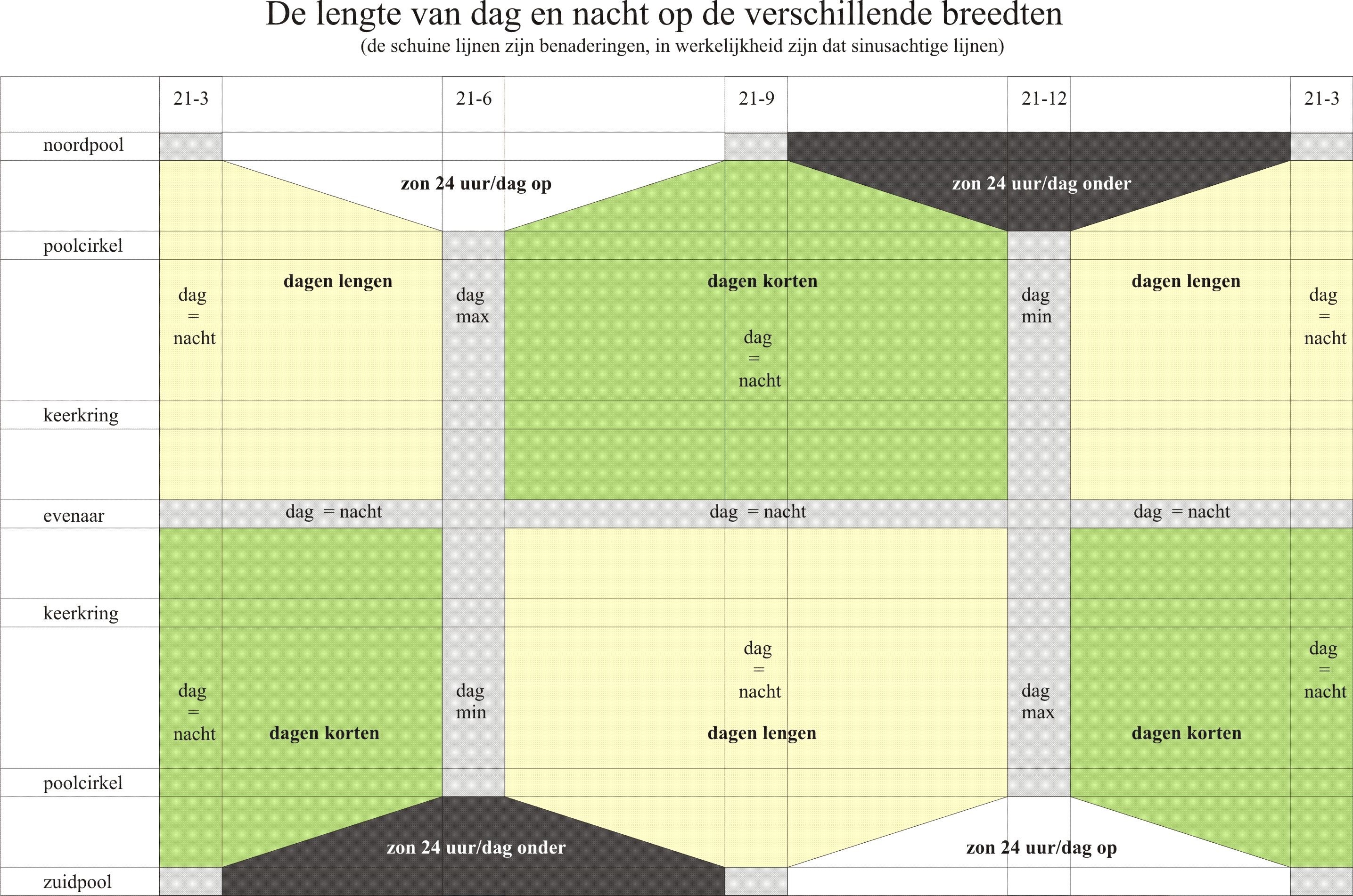 Length of day depending on latitude